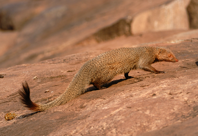 A Ruddy mongoose from Daroji wildlife sanctuary in Karnataka, India